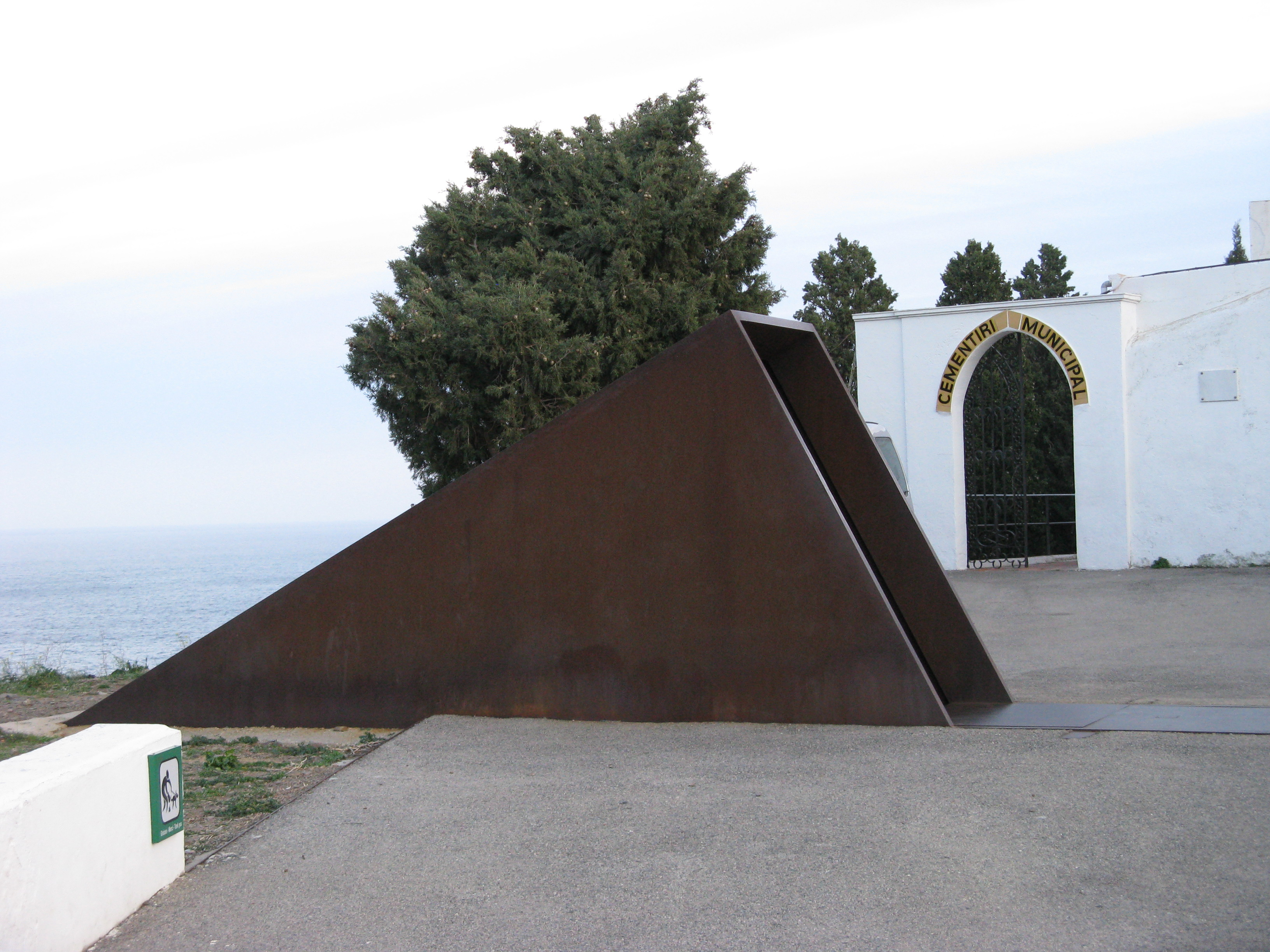 Memorial Walter Benjamin at the cimetery of Portbou (Artist: Dani Karavan